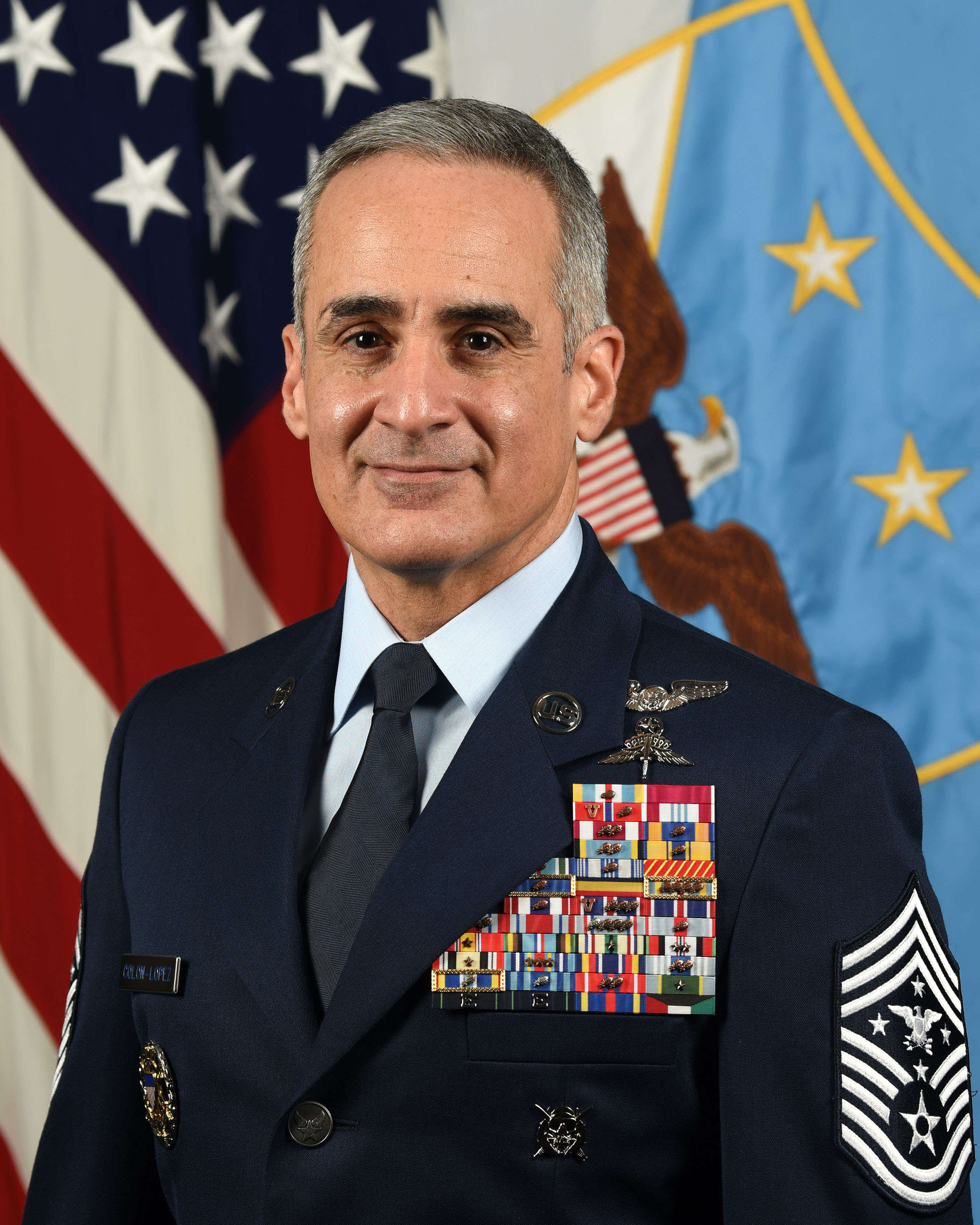 U.S. Air Force Chief Master Sgt. Ramon“CZ” Colon-Lopez, 4th Senior Enlisted Advisor to the Chairman, Joint Chiefs of Staff, poses for his official portrait in the Army portrait studio at the Pentagon in Arlington, Va., Dec. 9, 2019. (U.S. Army photo by William Pratt)